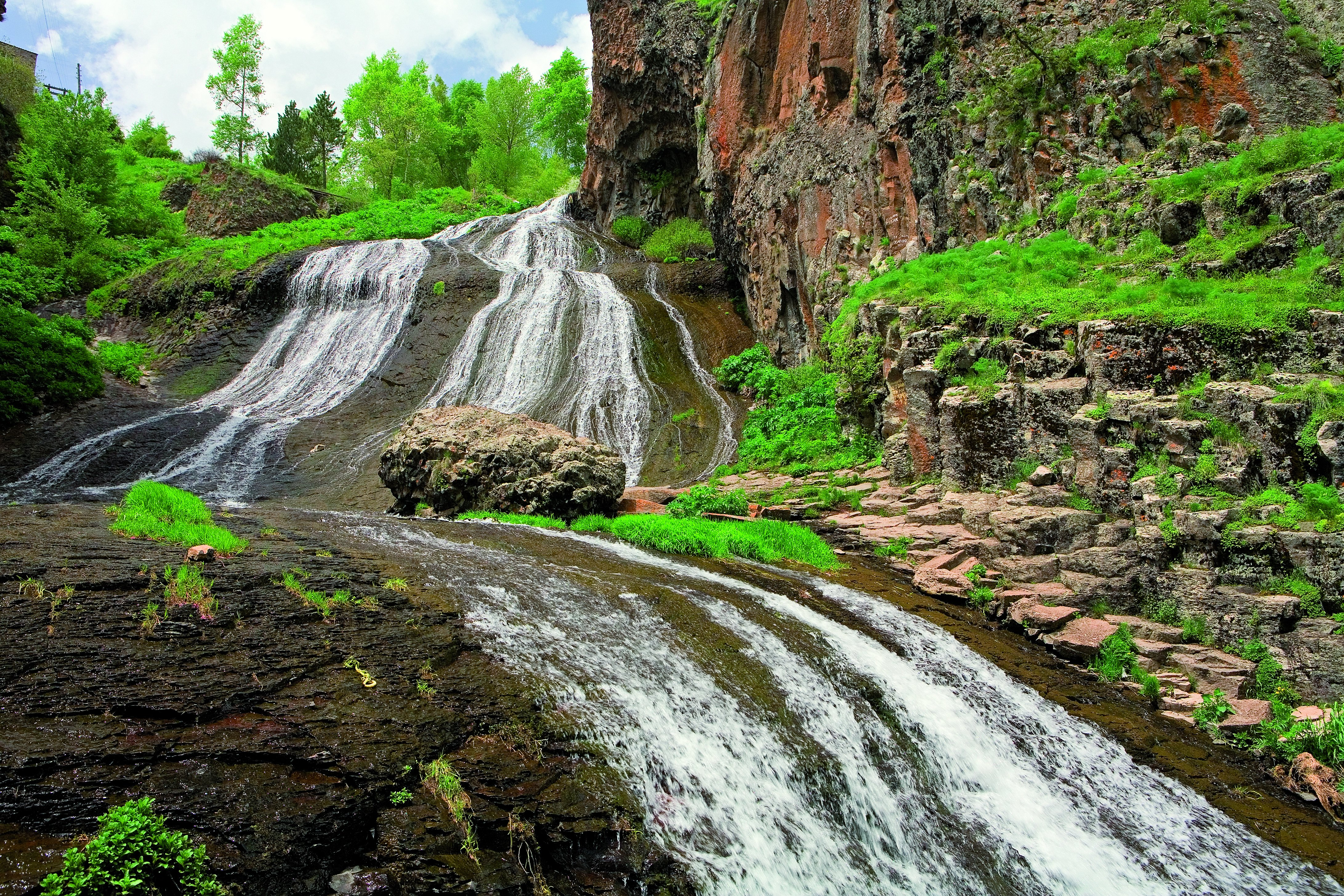 Jermuk Waterfall